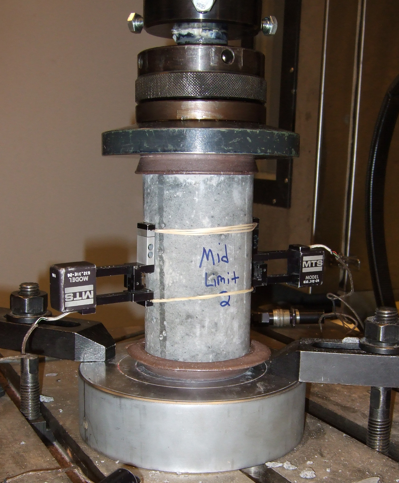 A lightweight/low-strength (~80 pounds per cubic foot) concrete test cylinder under compression testing. An linearly increasing load is being applied by the top and bottom plates of the machine, at the time of the photo the applied load was around 25,000 lbs. The devices attached to the cylinder measure the contraction of length of the sample in the direction of load. The rust colored material is a sulfur cap used to ensure flat ends.